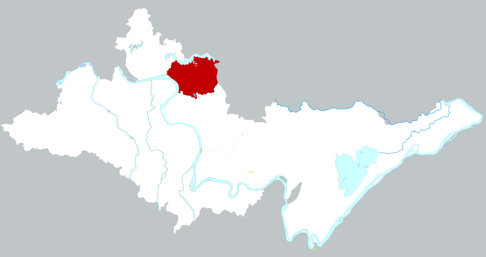 Location of Shashi district in Jingzhou city, China